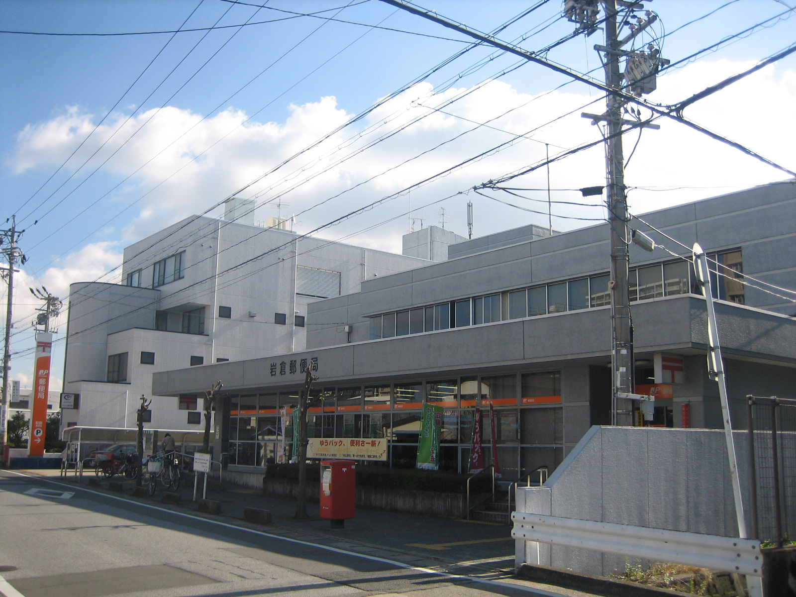 Iwakura post office in Aichi, Japan